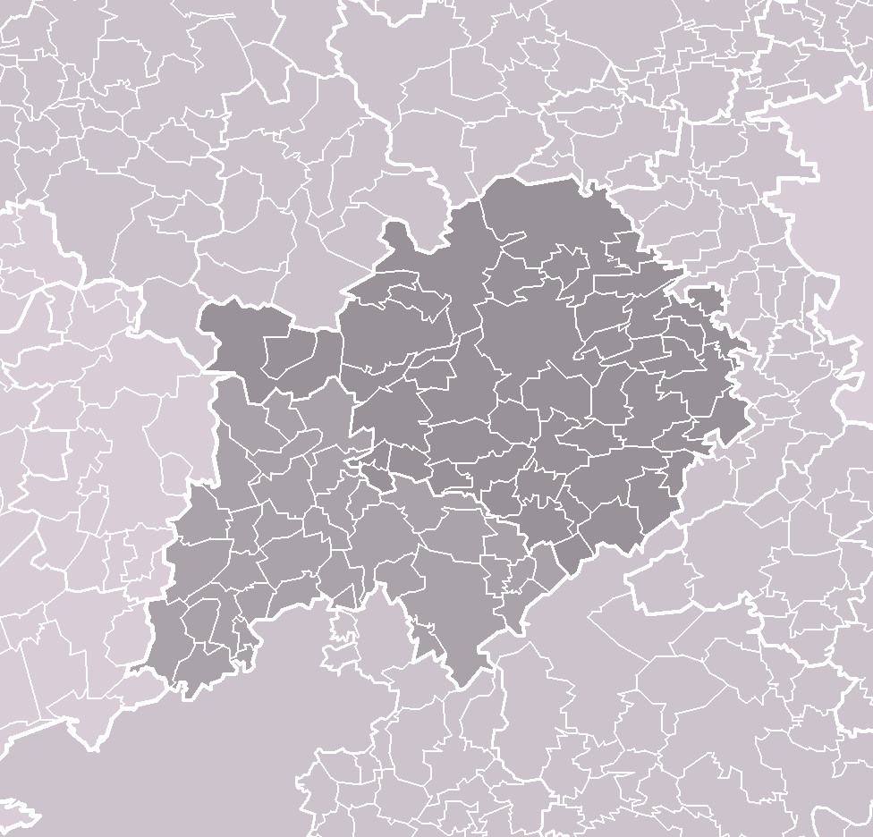 Location of administrative area of Beroun as a Municipality with Extended Competence within Beroun District. Darker grey in NE half of the district represents MEC area of Beroun, lighter grey in SW half represents MEC area of Hořovice. White lines of variable thickness show boundaries of municipalities, administrative areas, districts and regions.